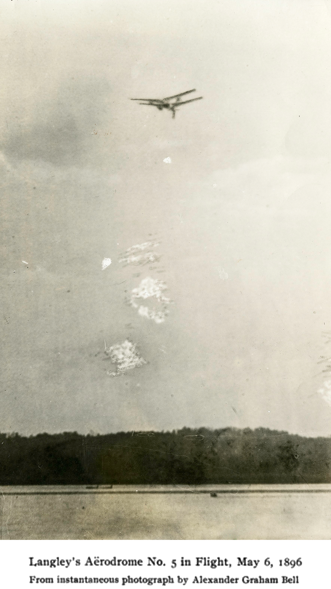 Category:Samuel Pierpont Langley's steam engine powered aircraft "Aërodrome No. 5" in flight on 1896 May 6.[1] An instantaneous photograph by Alexander Graham Bell.[1] (3 March 1847 – 2 August 1922).